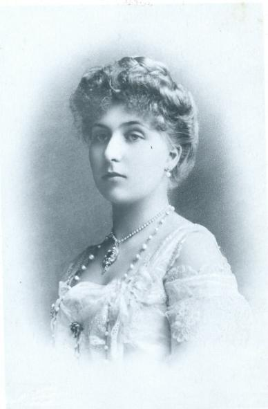 Victoria Eugenie of Battenberg, Queen of Spain